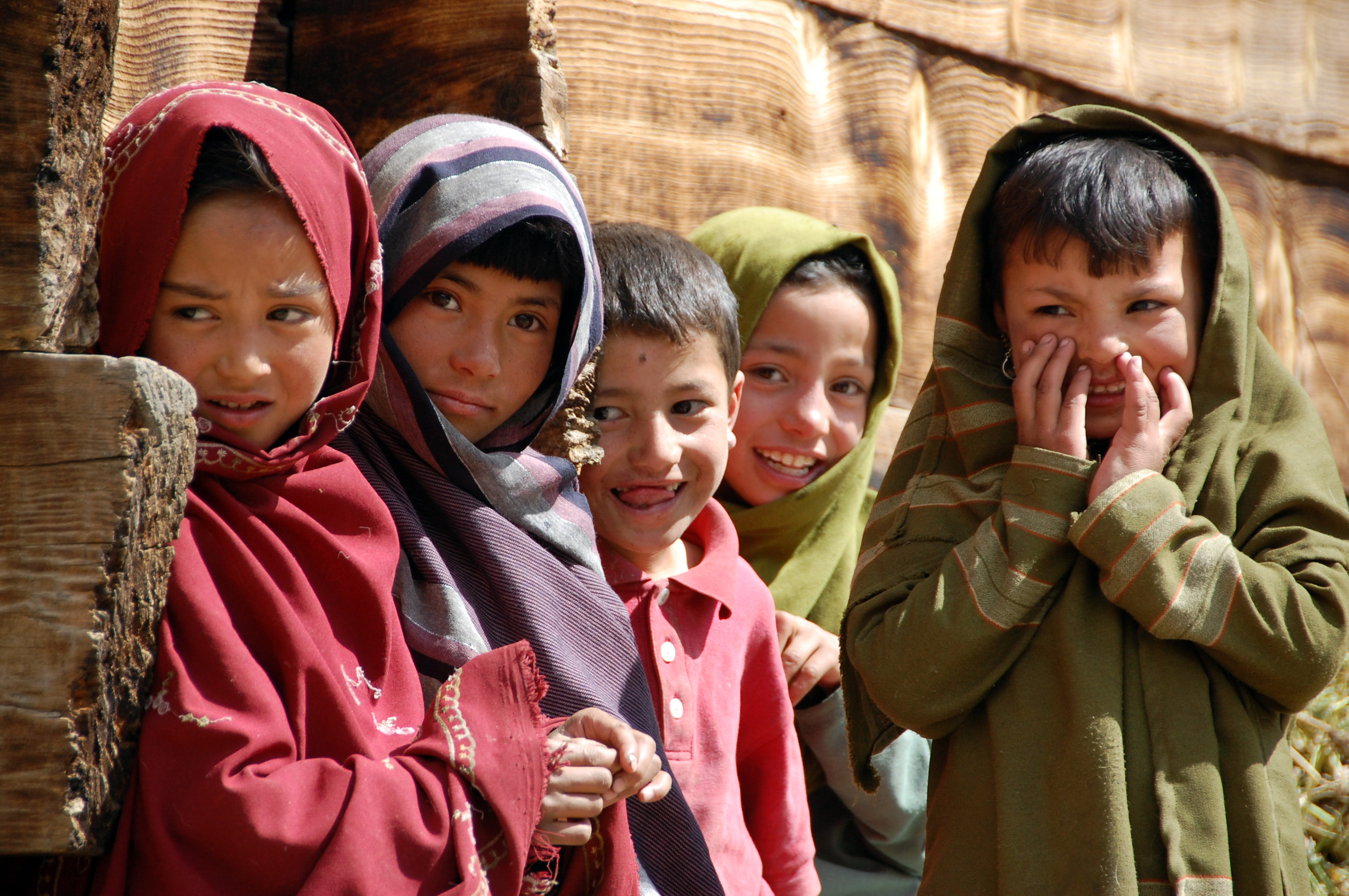 kids of Tarashing, Astore District, Gilgit-Baltistan, Pakistan